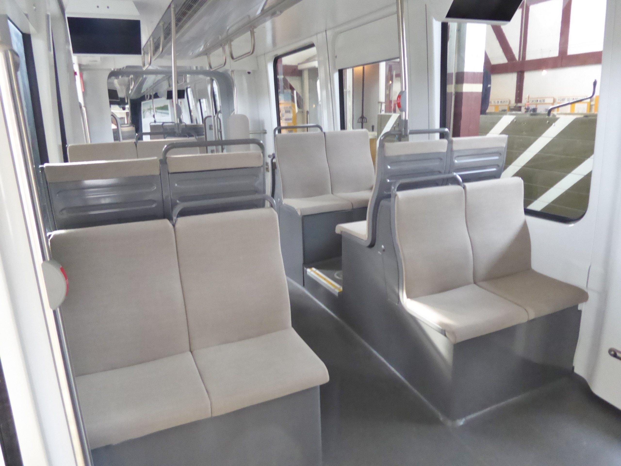 Mock-up of a quarter of a Siemens Avenio tram for Hovedstadens Letbane at Sporvejsmuseet Skjoldenæsholm in Denmark. It was used to test the design and interior for the trams for Hovedstadens Letbane which will open between Ishøj and Lundtofte in 2025.